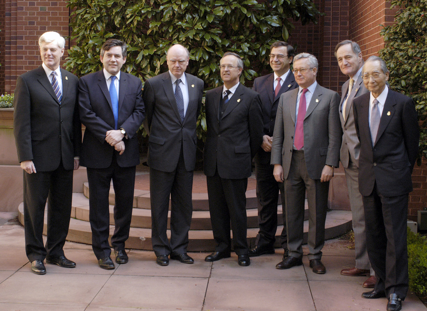 The Finance Ministers of the G7 pose for photos in Washington, D.C. on April 12, 2003.